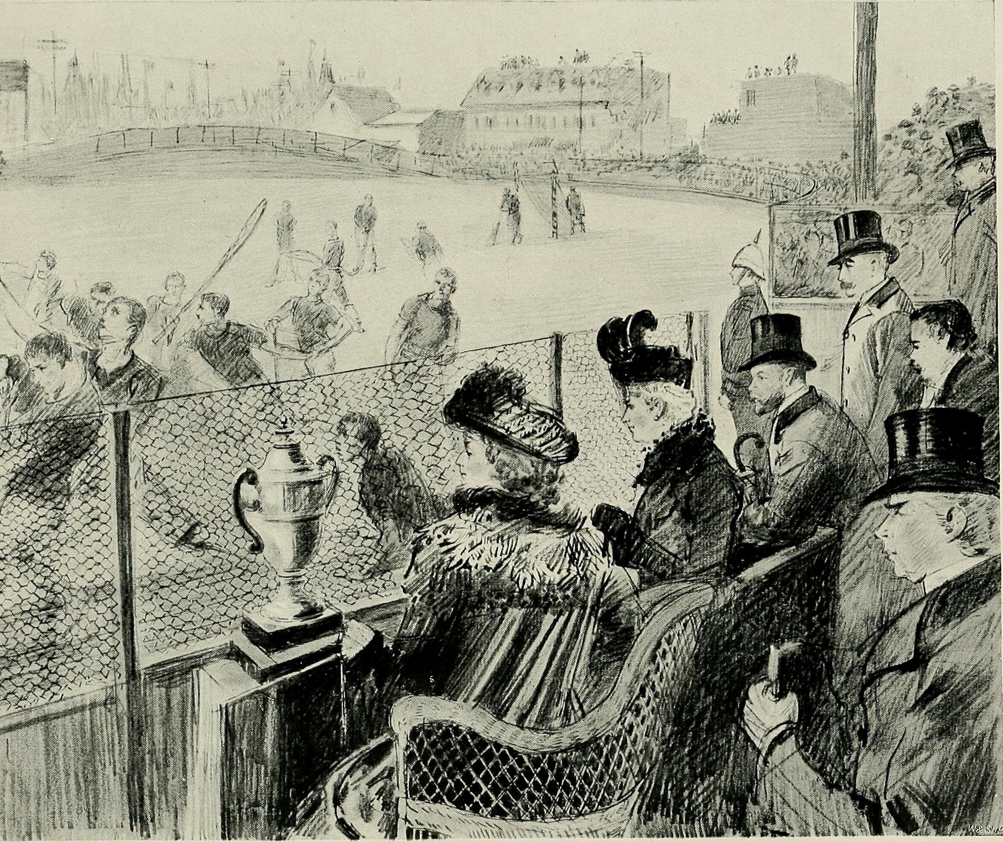 Title: The web of empire : a diary of the imperial tour of their Royal Highnesses the Duke & Duchess of Cornwall & York in 1901 Year: 1902 (1900s) Authors: Wallace, Donald Mackenzie, 1841-1919 Hall, Sydney Prior, 1842-1922, ill Martino, Eduardo de, d. 1912 Subjects: George V, King of Great Britain, 1865-1936 Mary, Queen, consort of George V, King of Great Britain, 1867-1953 Publisher: London, New York : Macmillan and company, limited Text Appearing Before Image: Friday 20th September 1901 ... their Royal Highnesses the Duke and Duchess of Cornwall and York ... drive to Rideau Hall... Residence close to the city, on the other side of the Rideau River, which here falls into the Ottawa. In the afternoon they watch with interest a well-contested lacrosse match between an Ottawa team and a team from Cornwall for the Minto Cup presented by the Governor General. Note: The Ottawa Capitals - defeated Cornwall. Text Appearing After Image:1901 Royal Tour '